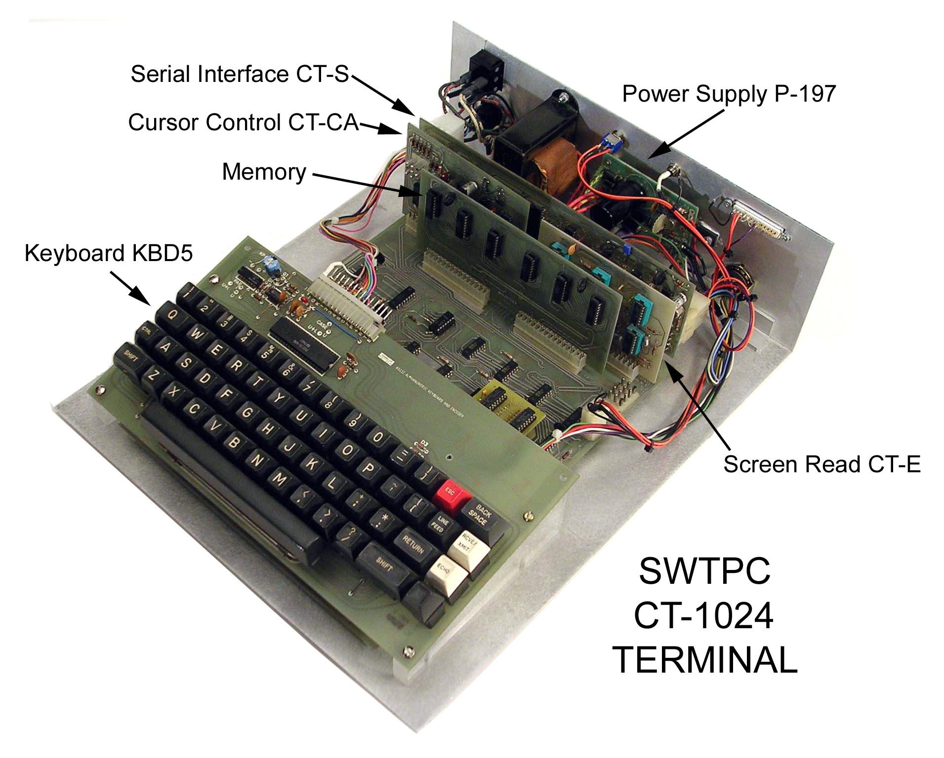 SWTPC CT-1024 Computer Terminal. This terminal would display 16 lines of 32 upper case characters on a television set. A complete kit with 1200 baud serial interface was $275 in January 1975. The terminal was sold by Southwest Technical Products Corp. of San Antonio, Texas as a kit to be assembled by hobbyists. It was featured in a series of articles in Radio Electronics magazine starting in February 1975. The magazine published a complete set of schematics and circuit board layouts. It was also known as the TV Typewriter II and was designed by Ed Colle. Don Lancaster designed the original TV Typewriter that was featured in the September 1973 issue of Radio Electronics.